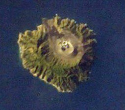 NASA astronaut image of Barren Island (Andaman Islands, India) in the Indian Ocean